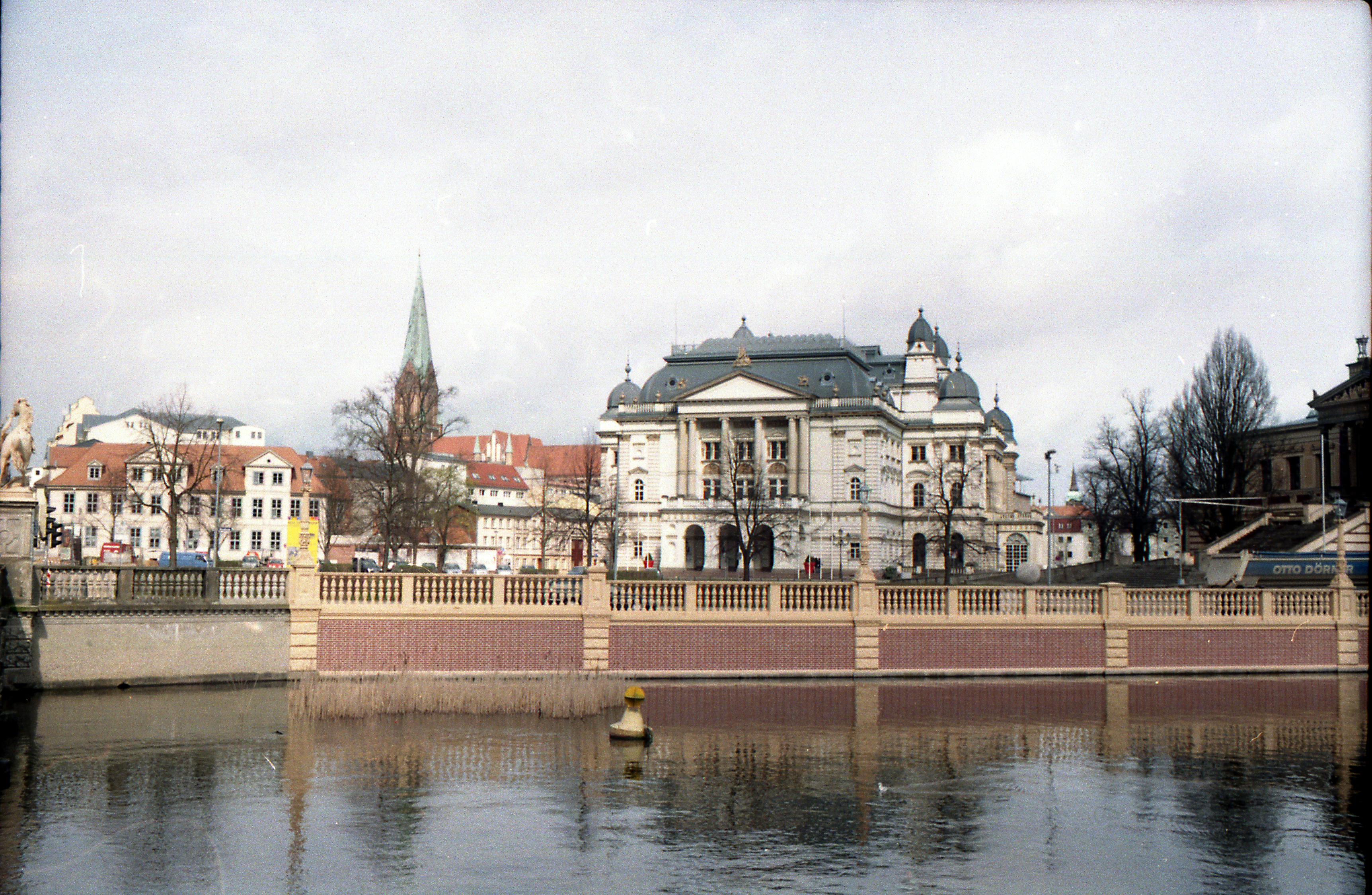 Mecklenburgisches Staatstheater Schwerin, Mecklenburg-Vorpommern, Germany